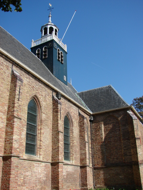 Church of Egmond